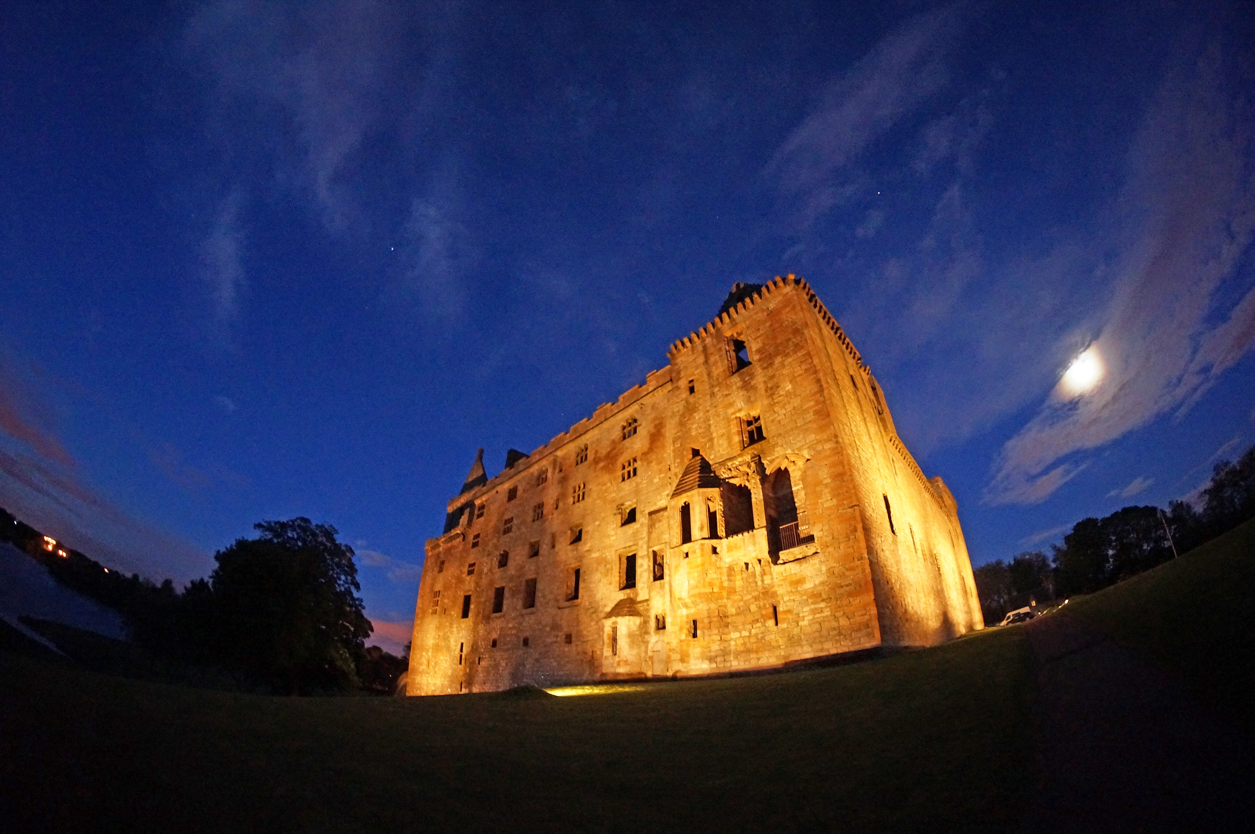 The north facing side of Linlithgow Palace